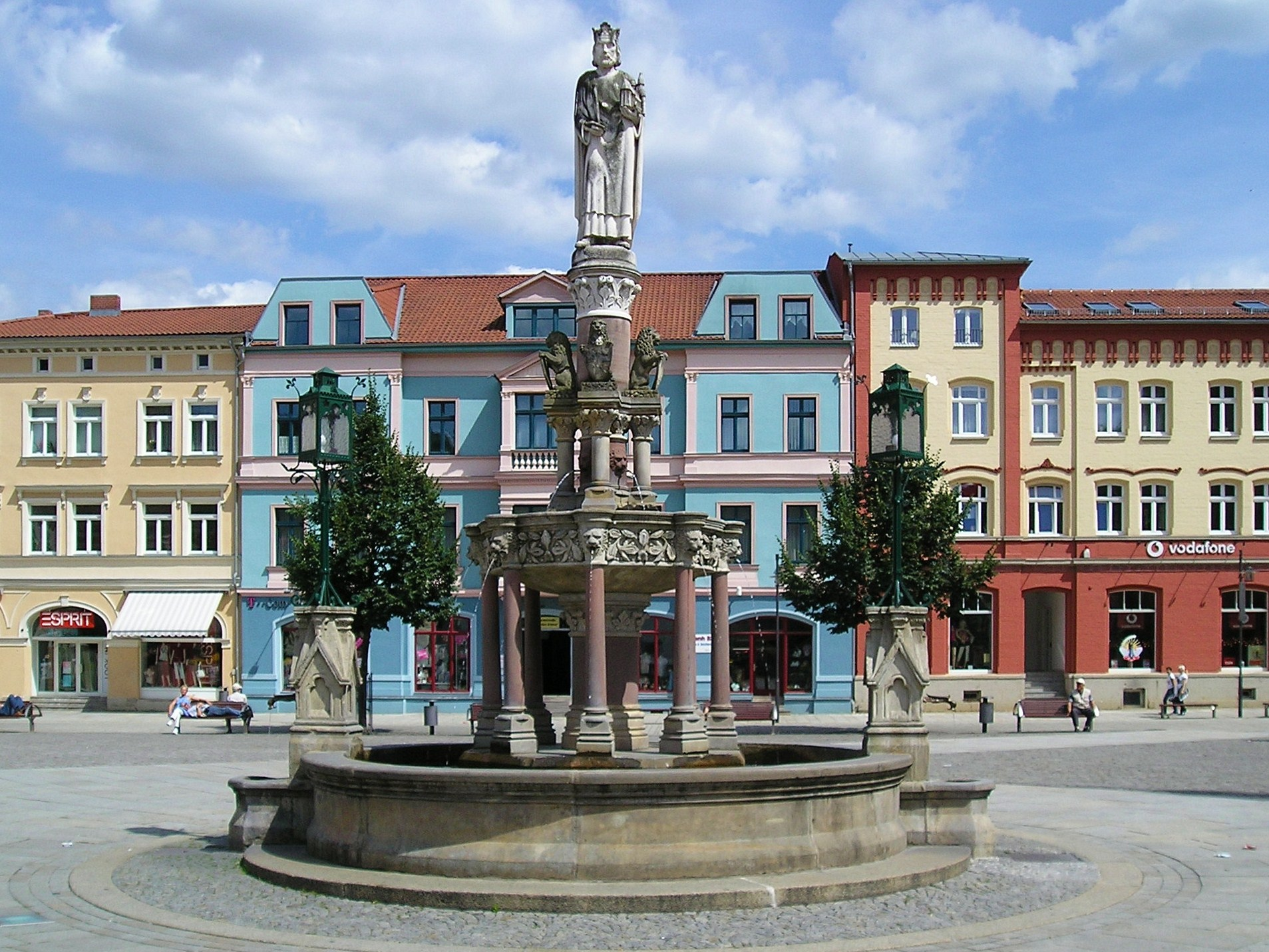 The Henry Fountain in Meiningen, dedicated to the Emperor Henry II (HRR).